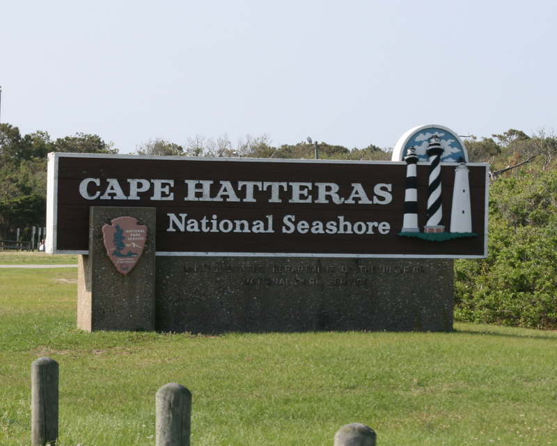 Welcome Sign to Cape Hatteras National Seashore on NC 12 (Nags Head, Outer Banks, North Carolina, United States)